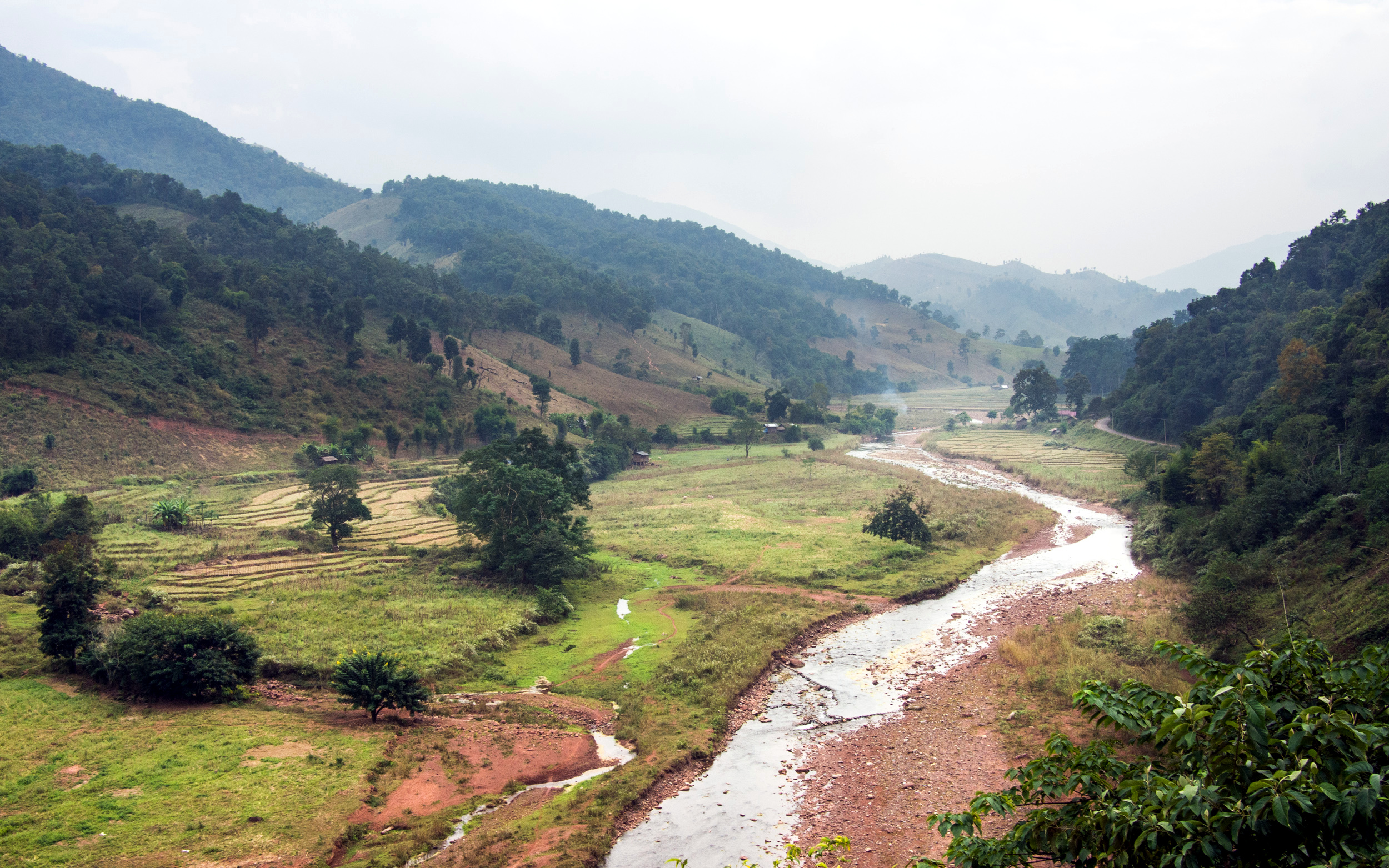 Countryside in Chaloem Phra Kiat District, Nan Province, as seen from road 1081, showing the Nan River near to its source, barely more than a stream during the dry season.